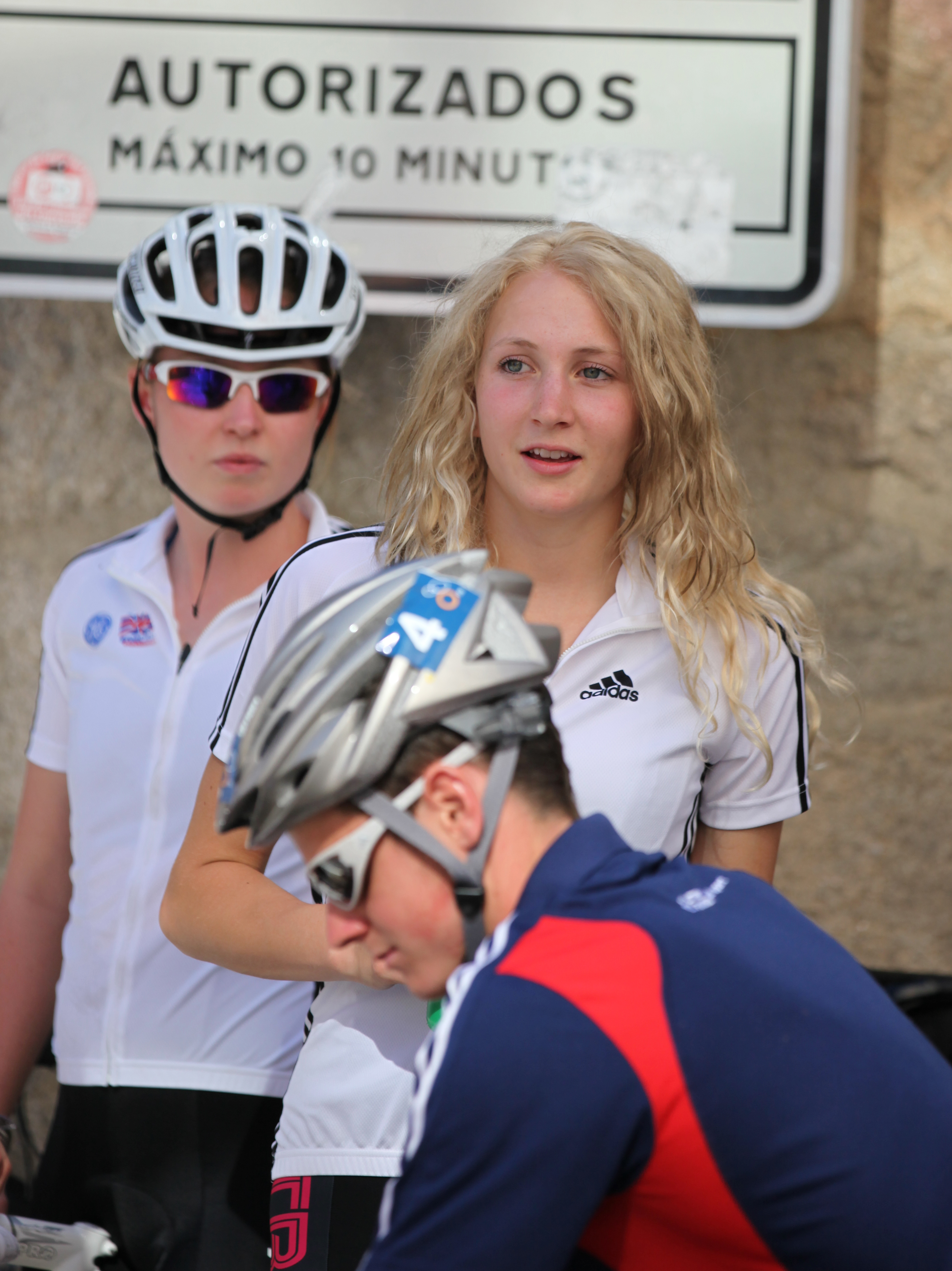 Lois Rosindale, British elite triathlete, on the day before her race as a spectator at the European Triathlon Championships in Pontevedra 2011